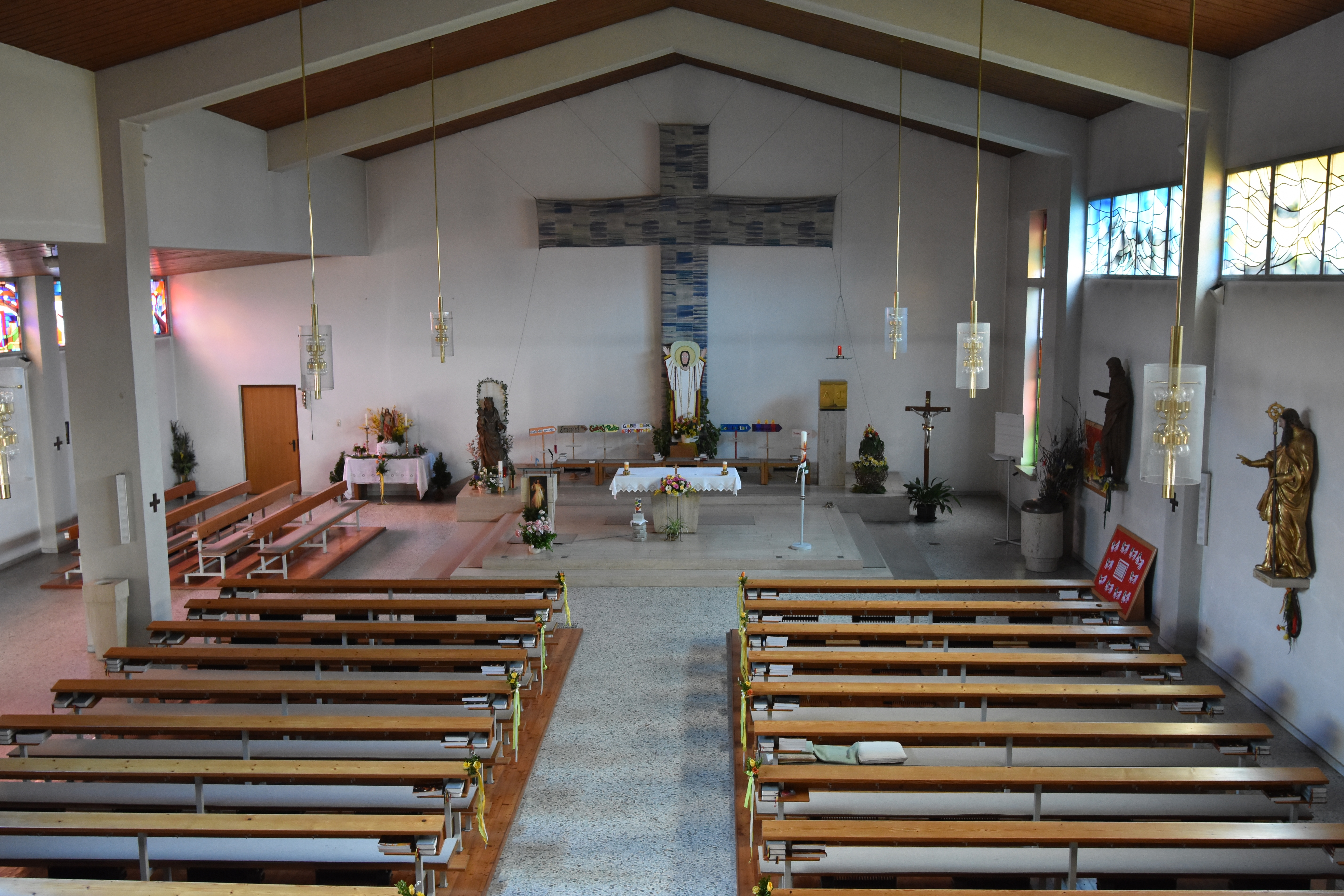 Church Wettmannstätten - Interior